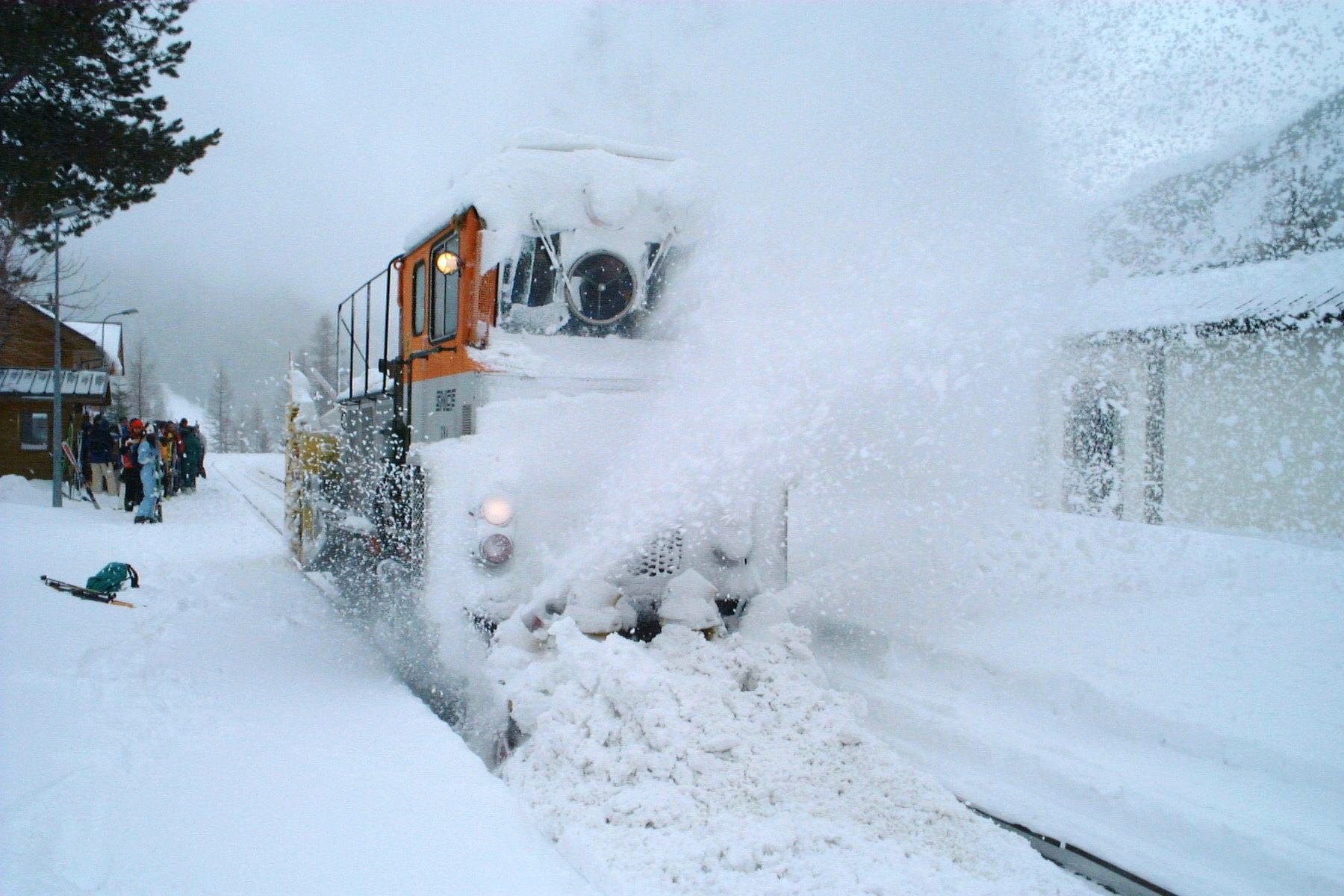 Le Buet train stop in France. While quite a few skiers are waiting at Le Buet for the 8:35 train from Vallorcine to Chamonix, within one minute of the scheduled departure a snow plough is arriving instead, clearing the line.